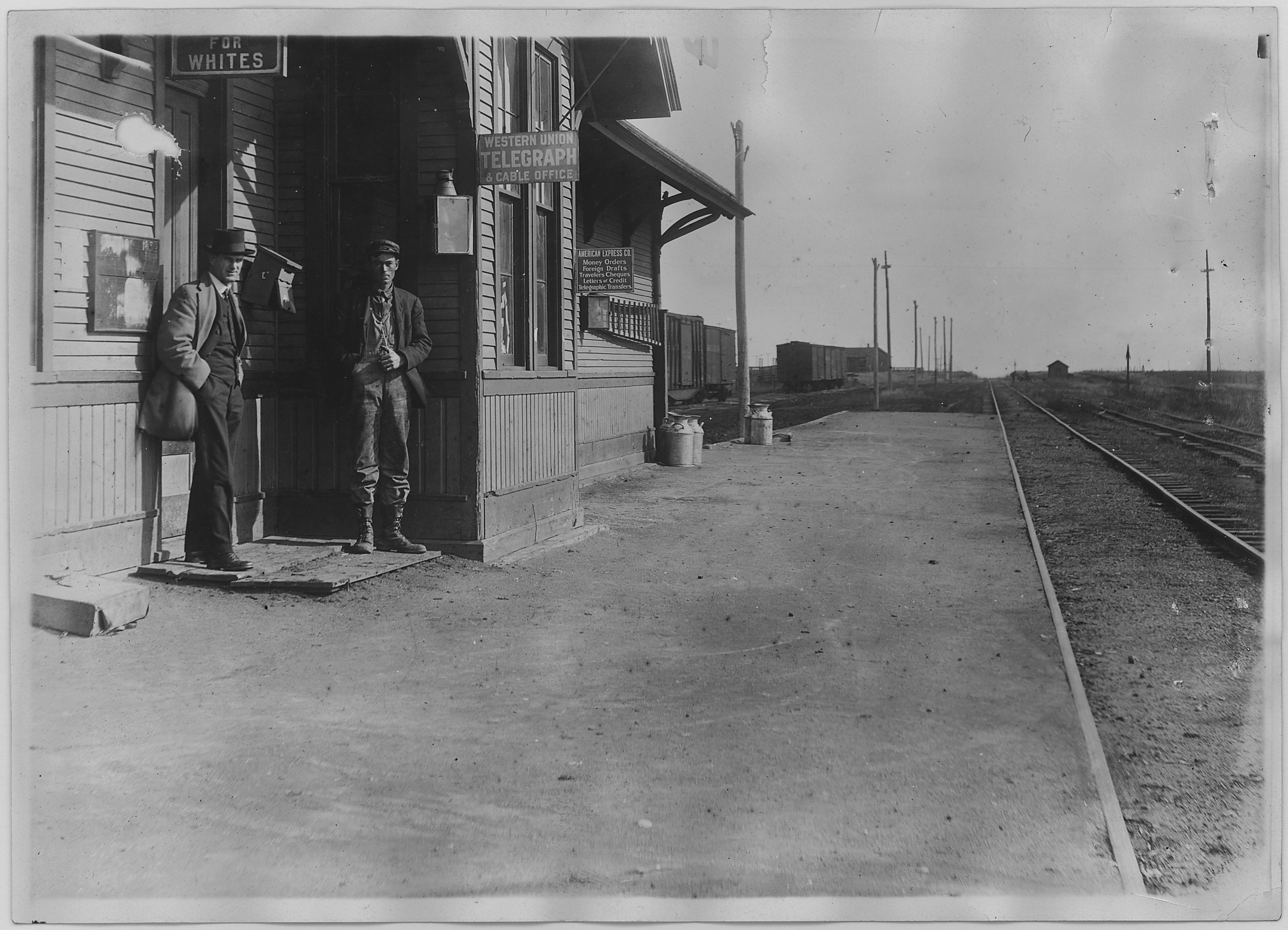 Scope and content: "---for whites" and "---for Negroes" signs partly visible.